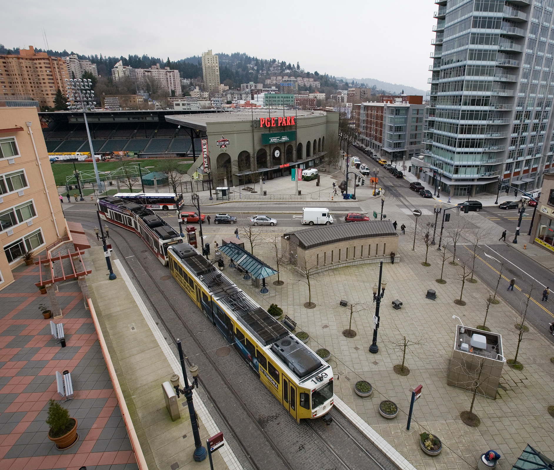 The MAX at PGE Park station (now Providence Park) in Portland, Oregon.